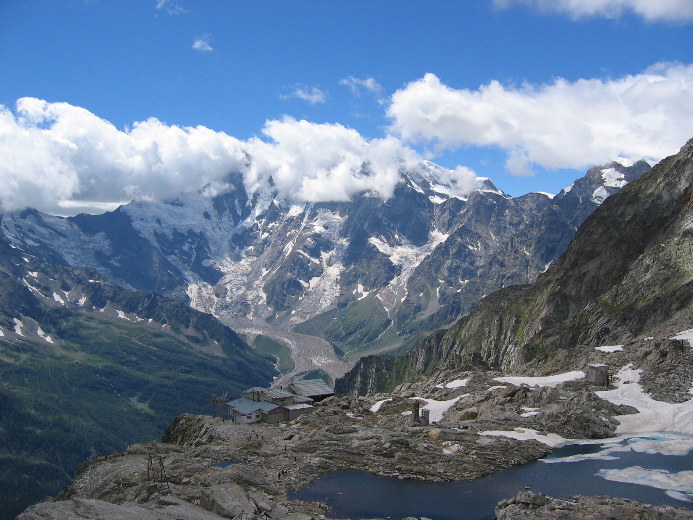 Monte Rosa east face, viewed from Monte Moro Pass. In the foreground the station of the cableway.